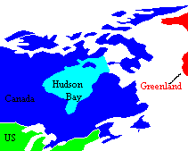 A map of Hudson Bay